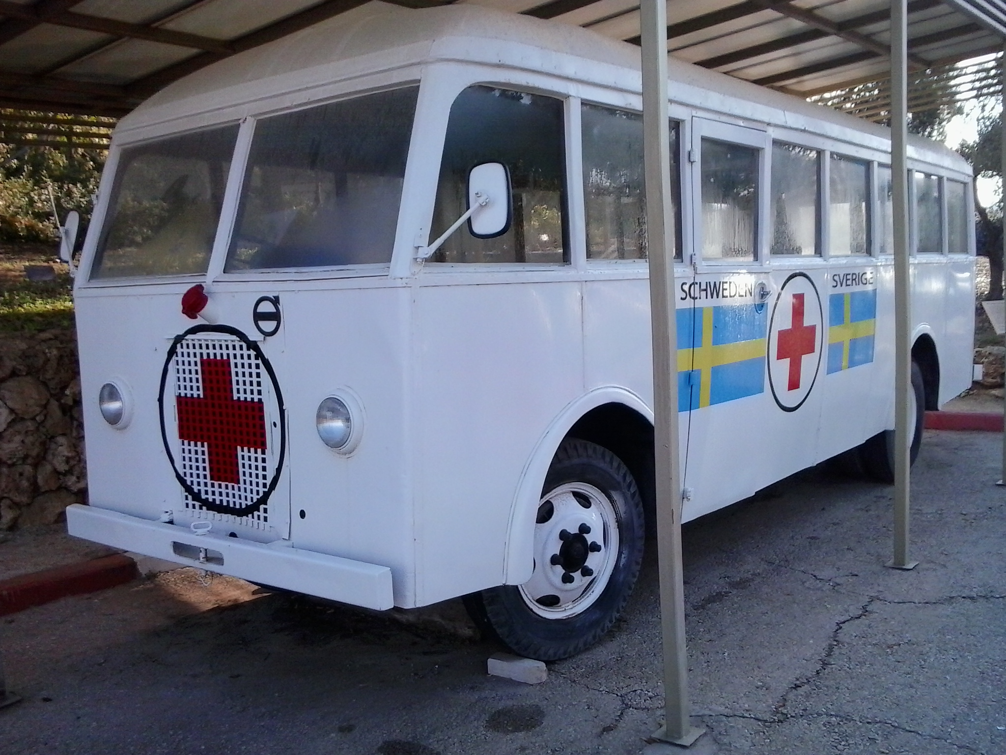 The Swedish Ambulance at Yad Vashem